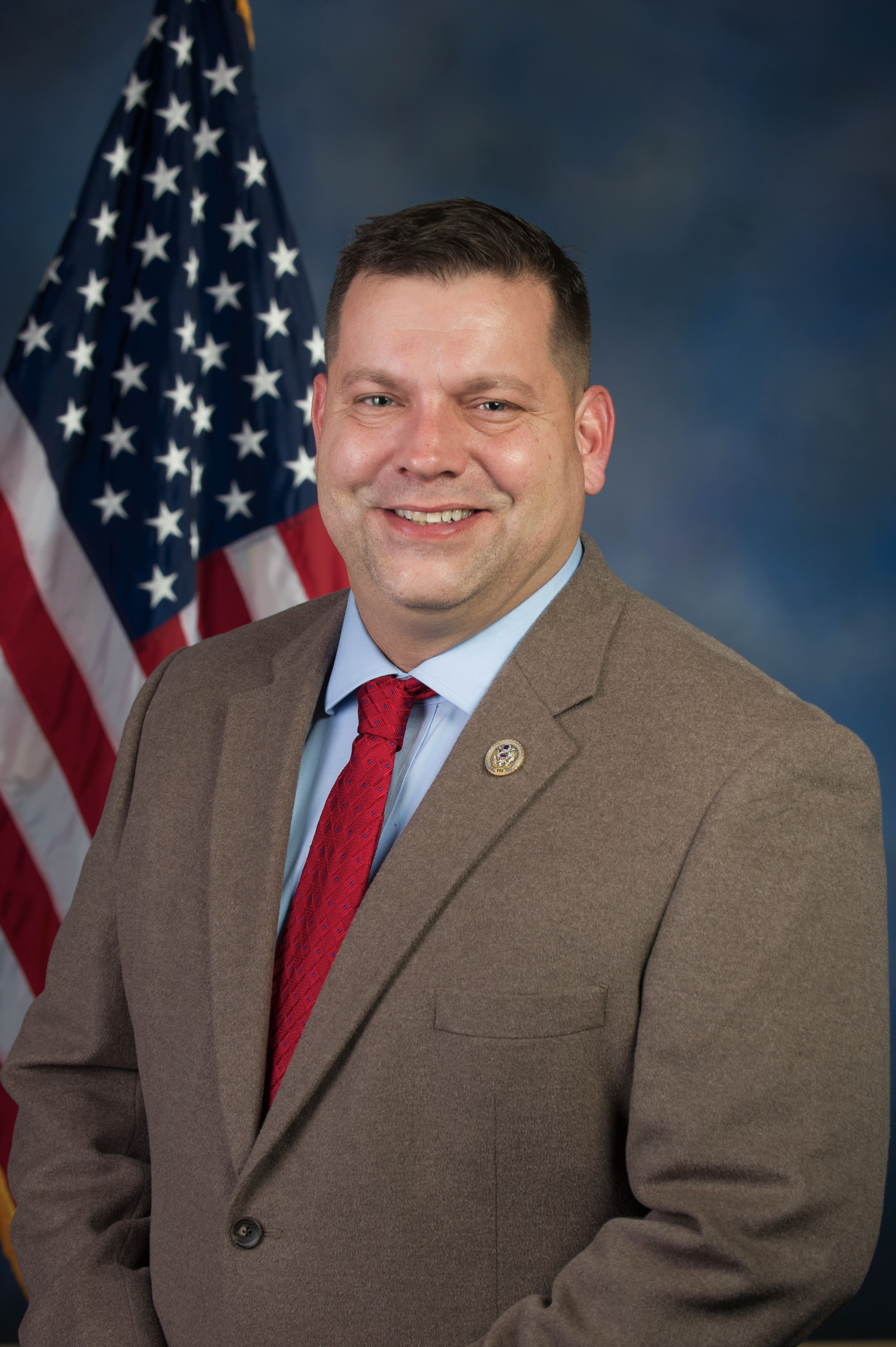 Tom Garrett official photo, 115th Congress